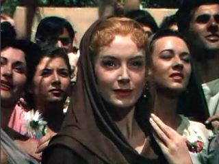 Screenshot of Deborah Kerr from the trailer for the film Quo Vadis